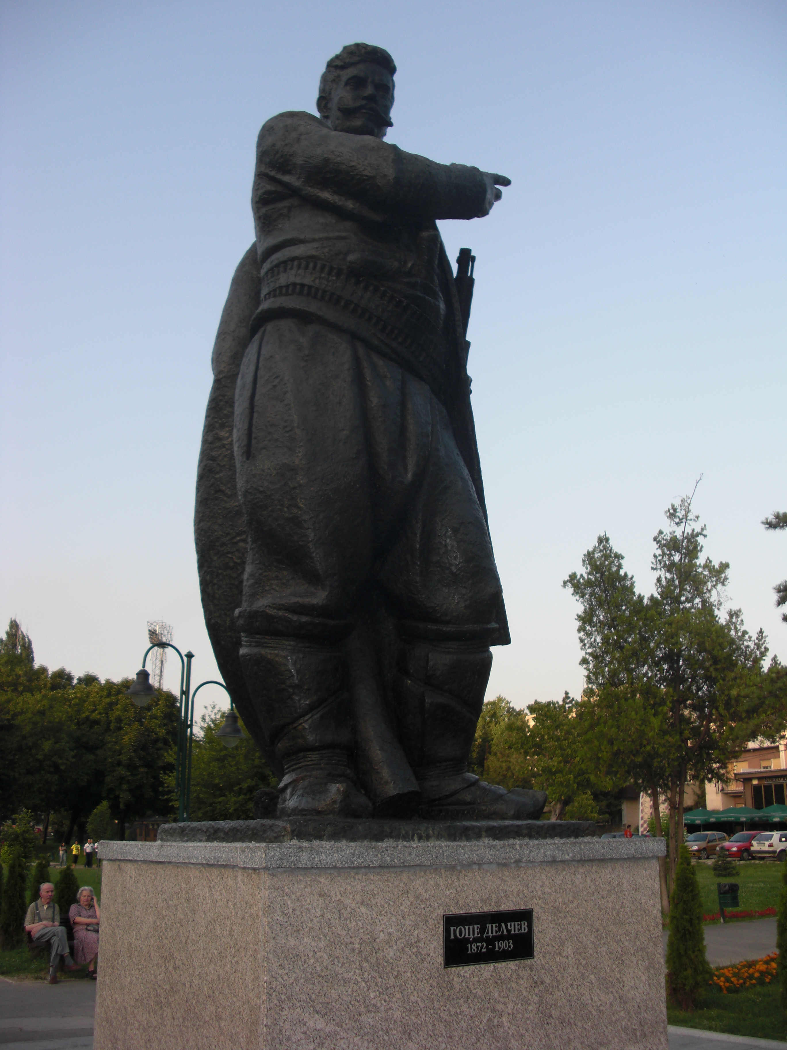 Statue of Goce Delcev in the City Park of Skopje, near Philip II Arena, Macedonia, given to Skopje by the autorities of Sofia.